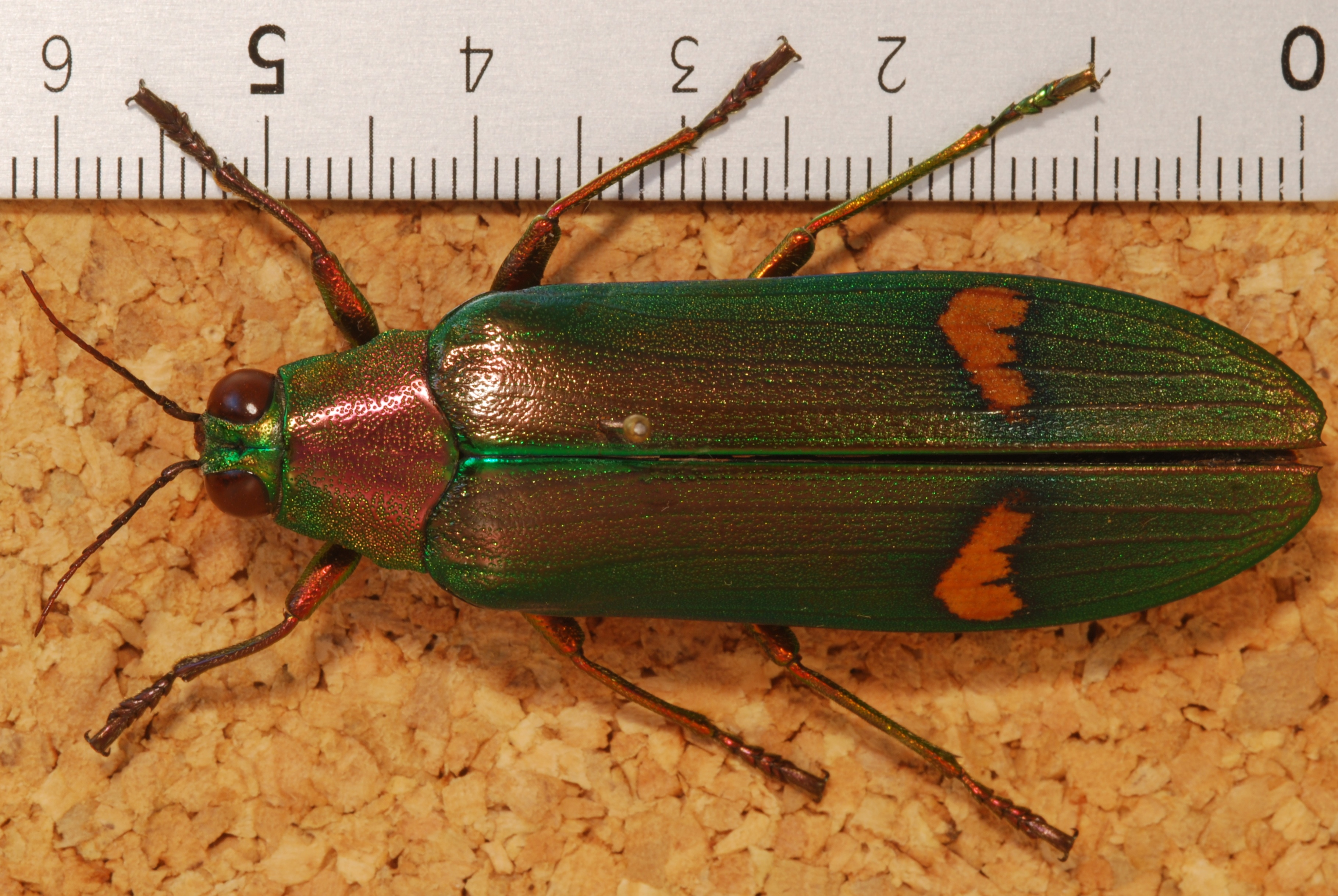 Cameron Highlands, MALAYSIA